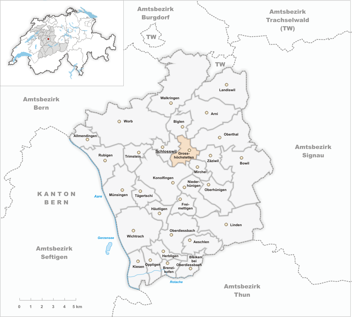 Municipality Grosshöchstetten